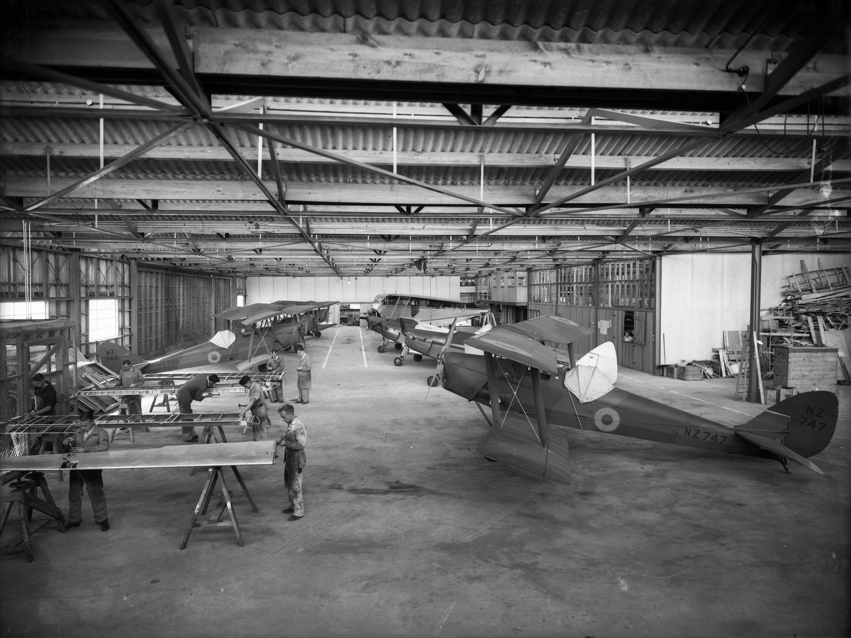 Interior of De Havilland aircraft factory, Rongotai, Wellington, 1939 or 1940 Reference Number: 1/1-021666-G Photographer: William Hall Raine Dry plate glass negative Photographic Archive, Alexander Turnbull Library Interior view of the De Havilland Co of NZ Ltd factory, Rongotai, Wellington, showing newly assembled De Havilland DH82 Tiger Moths (left, and right foreground), three DH94 Moth Minors (right), and a disassembled DH89 Rapide (right background). The Tiger Moths are from a batch of British-built aircraft which preceded the start of New Zealand assembly. Find out more about this image on our Manuscripts + Pictorial website